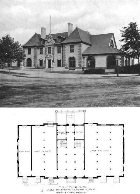 View of front elevation of Harvard University's Weld Boathouse, together with first-floor plan